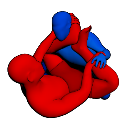 diagram showing martial artists demonstrating the locoplata (gogoplata variation) submission from the 10th Planet Jiujitsu system.